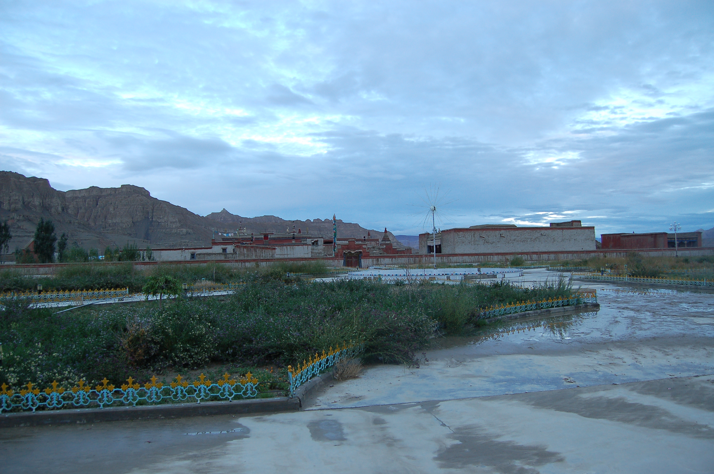 Tholing Monastery in Westtibet in the evening light